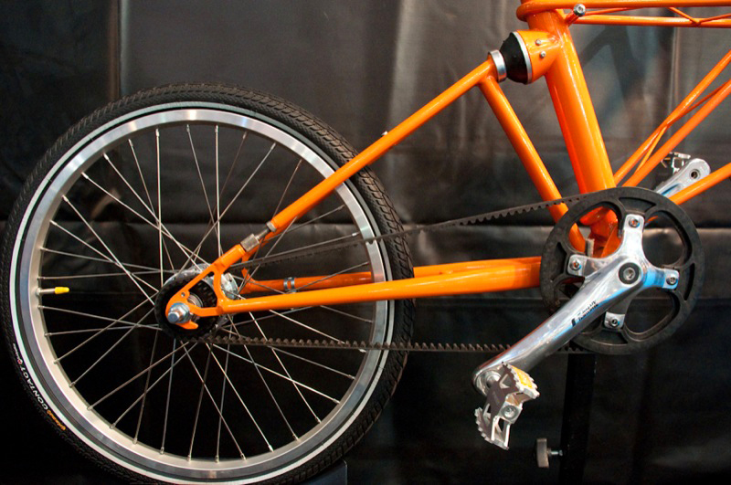 Moulton's revolutionary rubber cone suspension system.